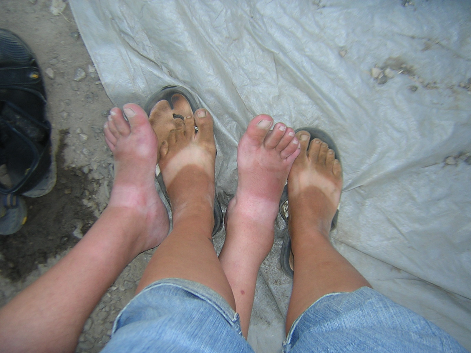 Caryn worked at the fair every day from 7/28 to 8/3, I was just there Monday and then again on the weekend, so she's just a wee bit darker than me. Even without the filth on both of our feets.